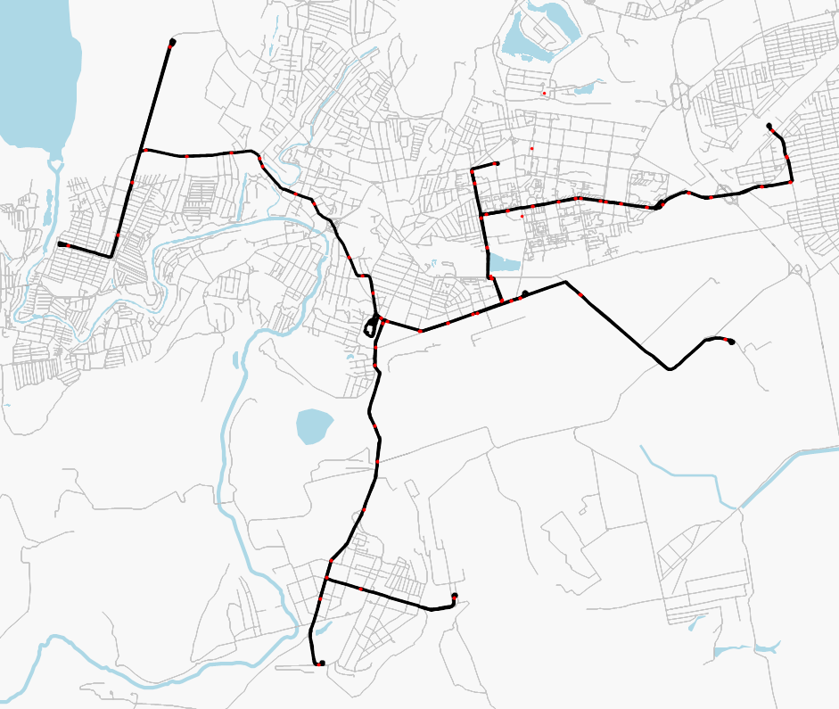 Kryvyi Rih tram system, rendered using OSM data. This map may be incomplete, and may contain errors. Don't rely solely on it for navigation.